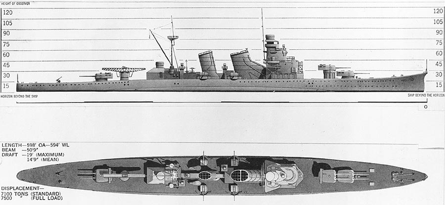 World War II era recognition drawings for Aoba-class heavy cruisers. Photo # NH 97733 WWII Recognition drawing of Japanese heavy cruisers Aoba and Kinugasa